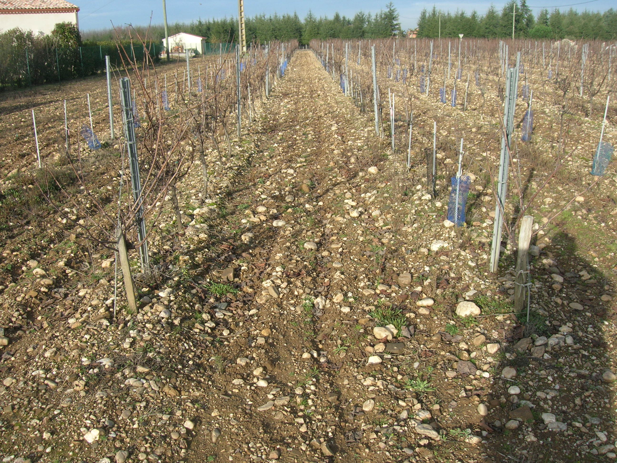 Soil of first fluvial terrace of Tarn. Aggregate is good wineyard soil.